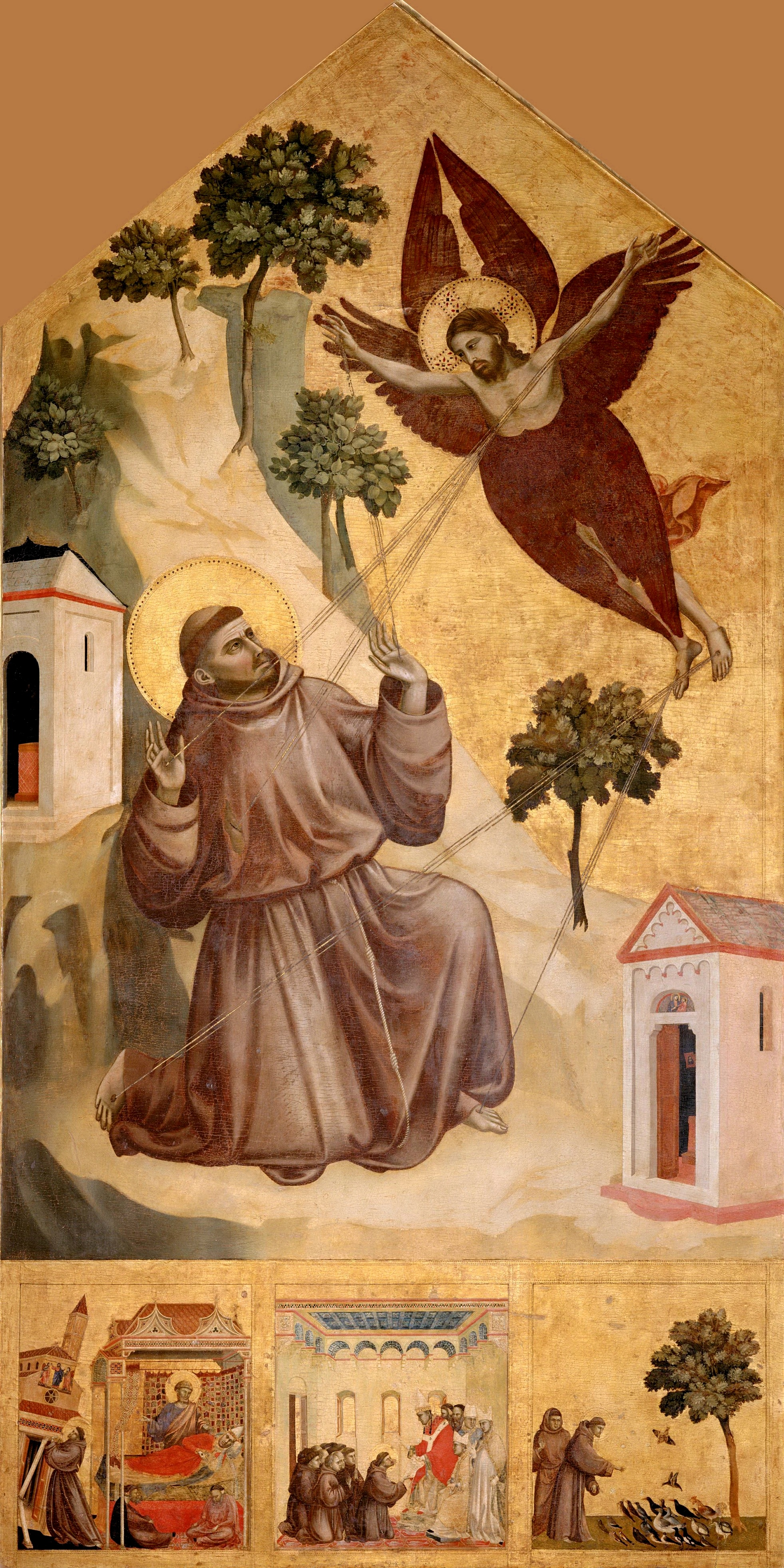 Giotto._Stigmatization_of_St_Francis._1295-1300._314x162cm._Louvre,_Paris